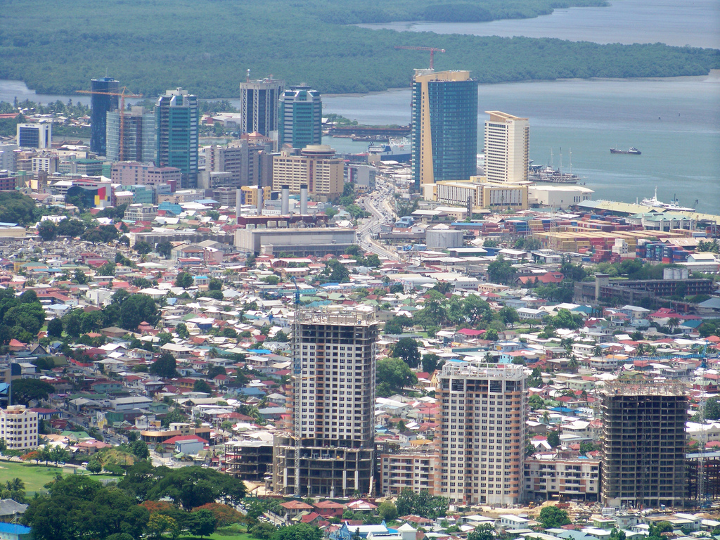 Port of spain city panorama